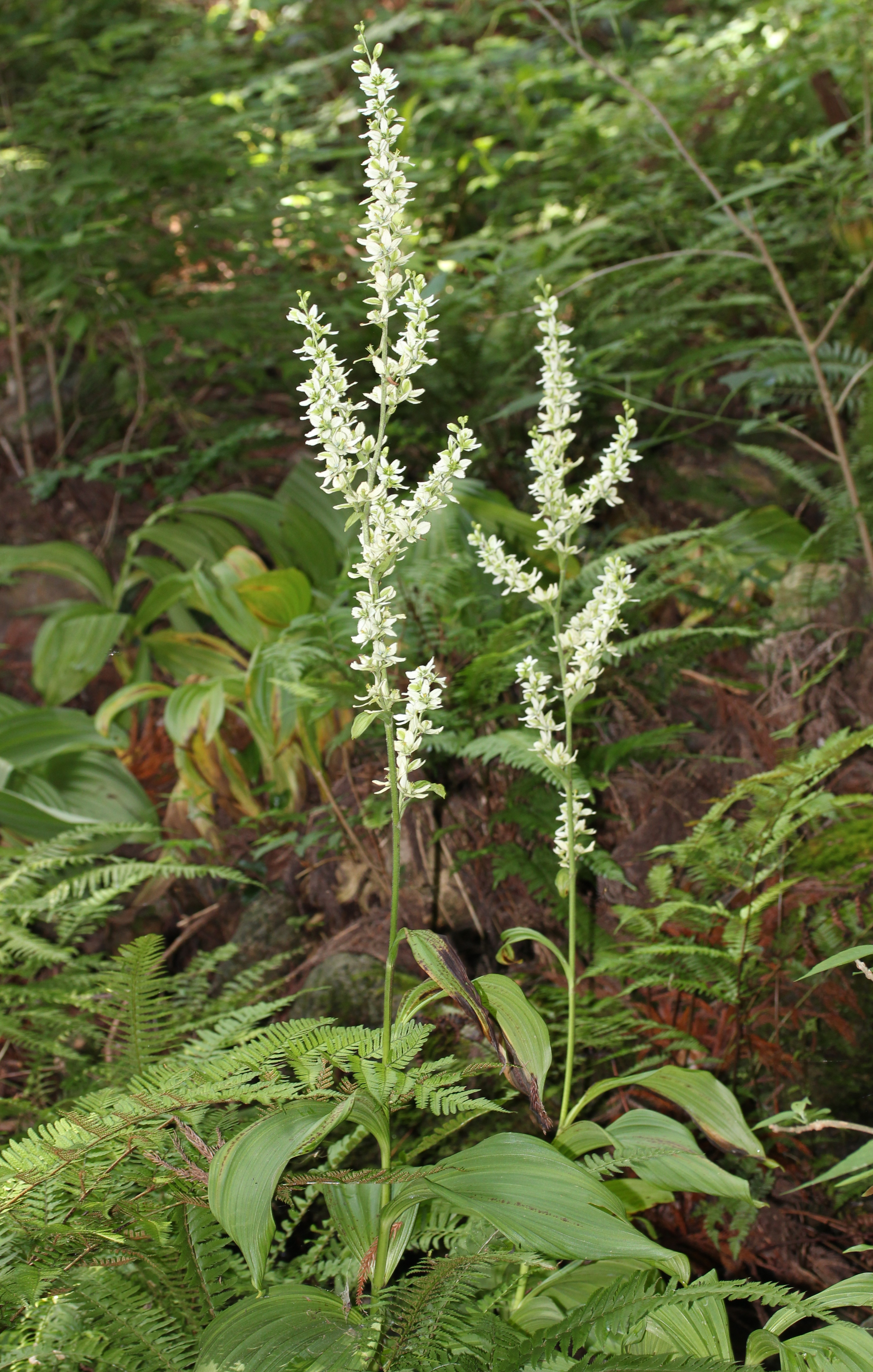 False Helleborine (Veratrum album subsp. oxysepalum), in Yumihari Mountains, Toyohashi, Aichi pref., Japan.